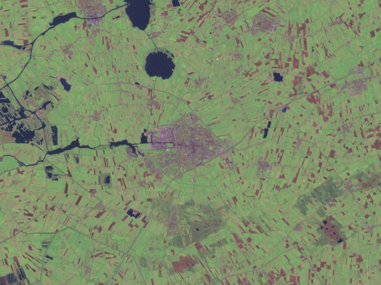 Drachten, Netherlands. Satellite view.